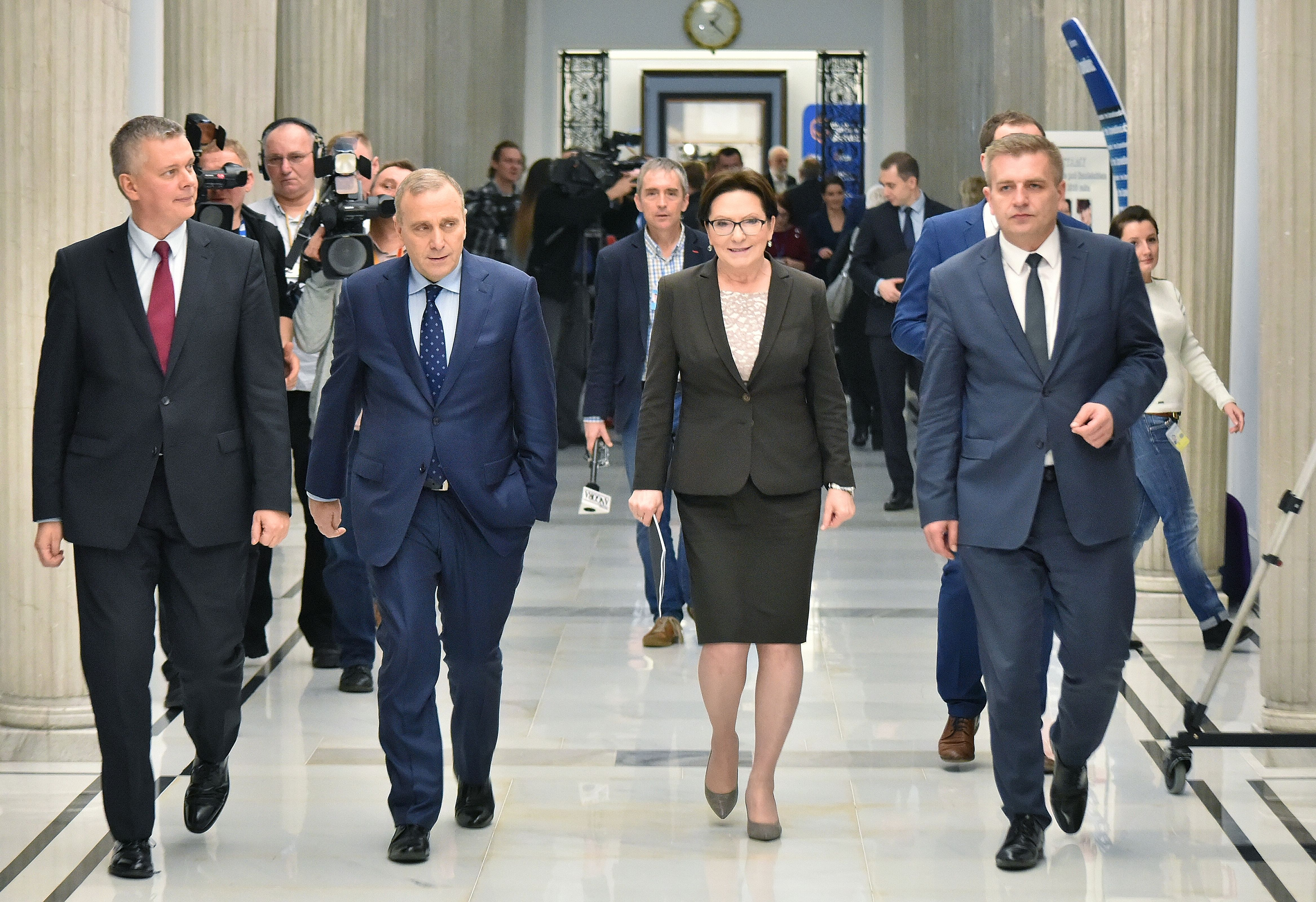 Tomasz Siemoniak. Grzegorz Schetyna. Ewa Kopacz and Bartosz Arłukowicz in the Sejm